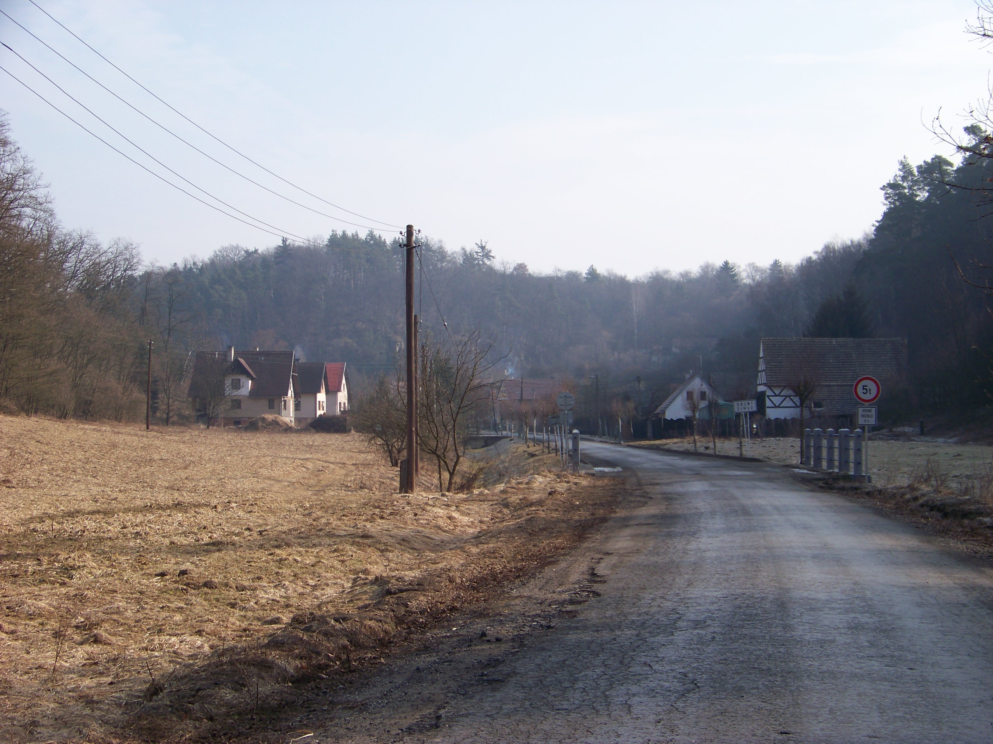 Dolní Zimoř, Mělník District, Central Bohemian Region, the Czech Republic. - OpenStreetMap(Info)